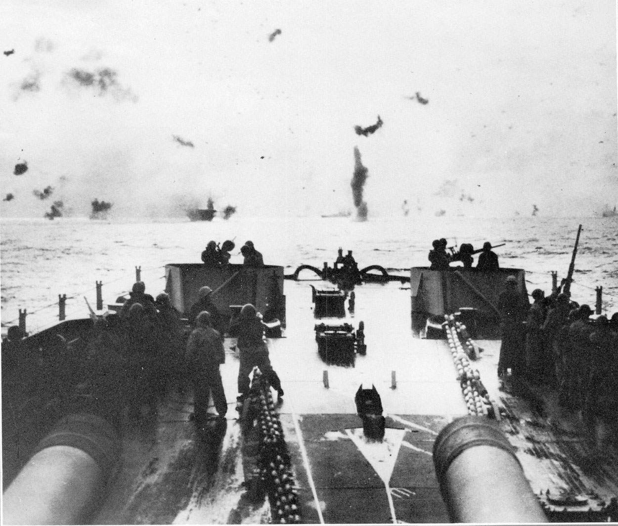 A view of the action over the bow during the Gilbert Islands Operation. Note the bow 20mm guns and crew in ready position and also the carrier steaming ahead. December, 1943.